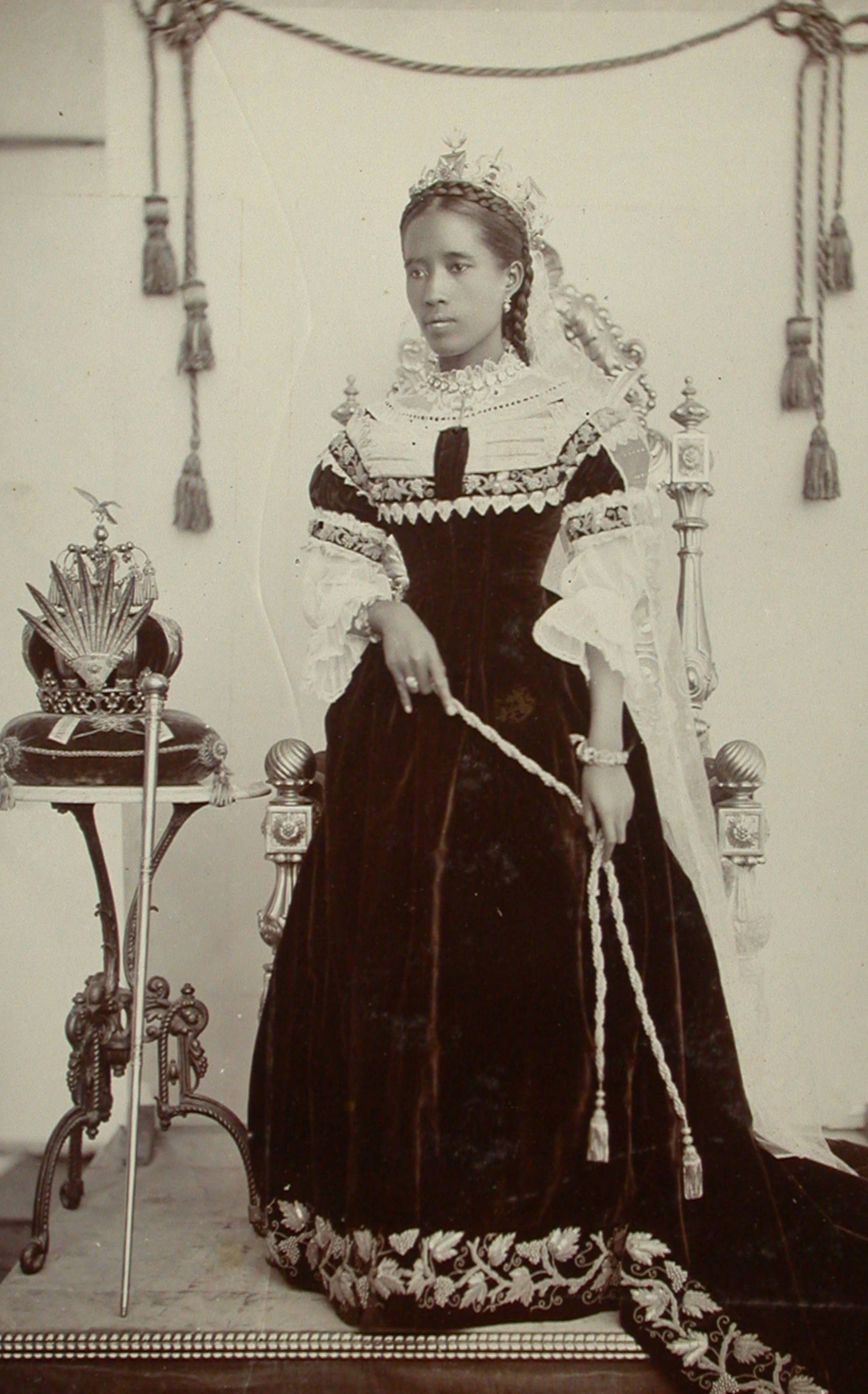 Queen Ranavalona III standing beside a throne table which her crown is lying on. She is wearing a beautiful royal gown which has some embroidery on it. Her hair is braided.